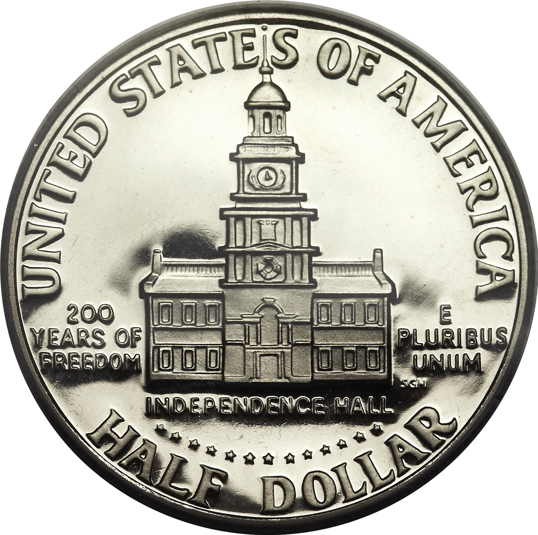 1976-S 50C Clad Deep Cameo (rev)(1171-4192)